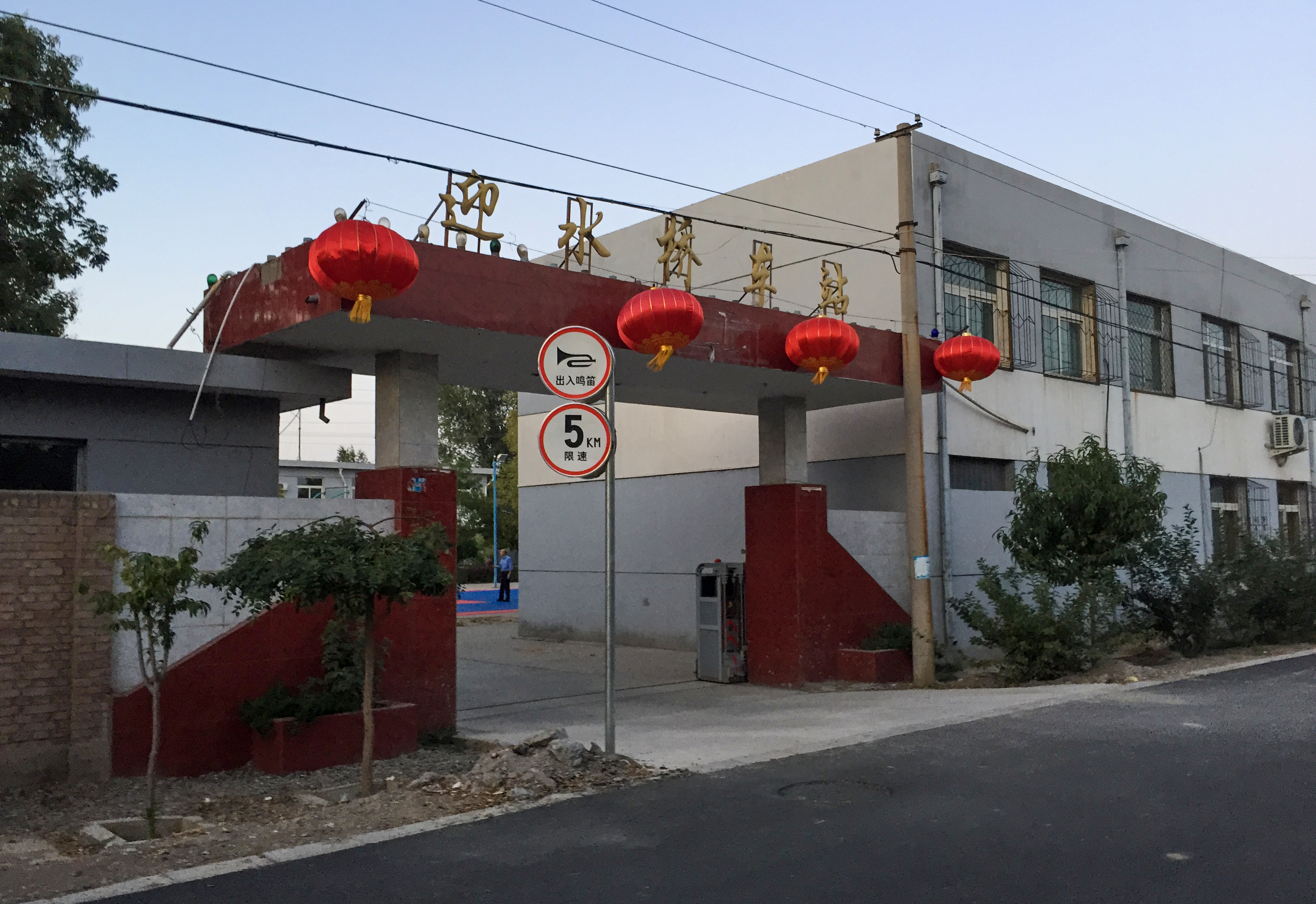 Literally "bridge greeting water"... see how people of Zhongwei has been dying for water! Speaking of the gate, I got a feeling of Fengtaixi Railway Station...